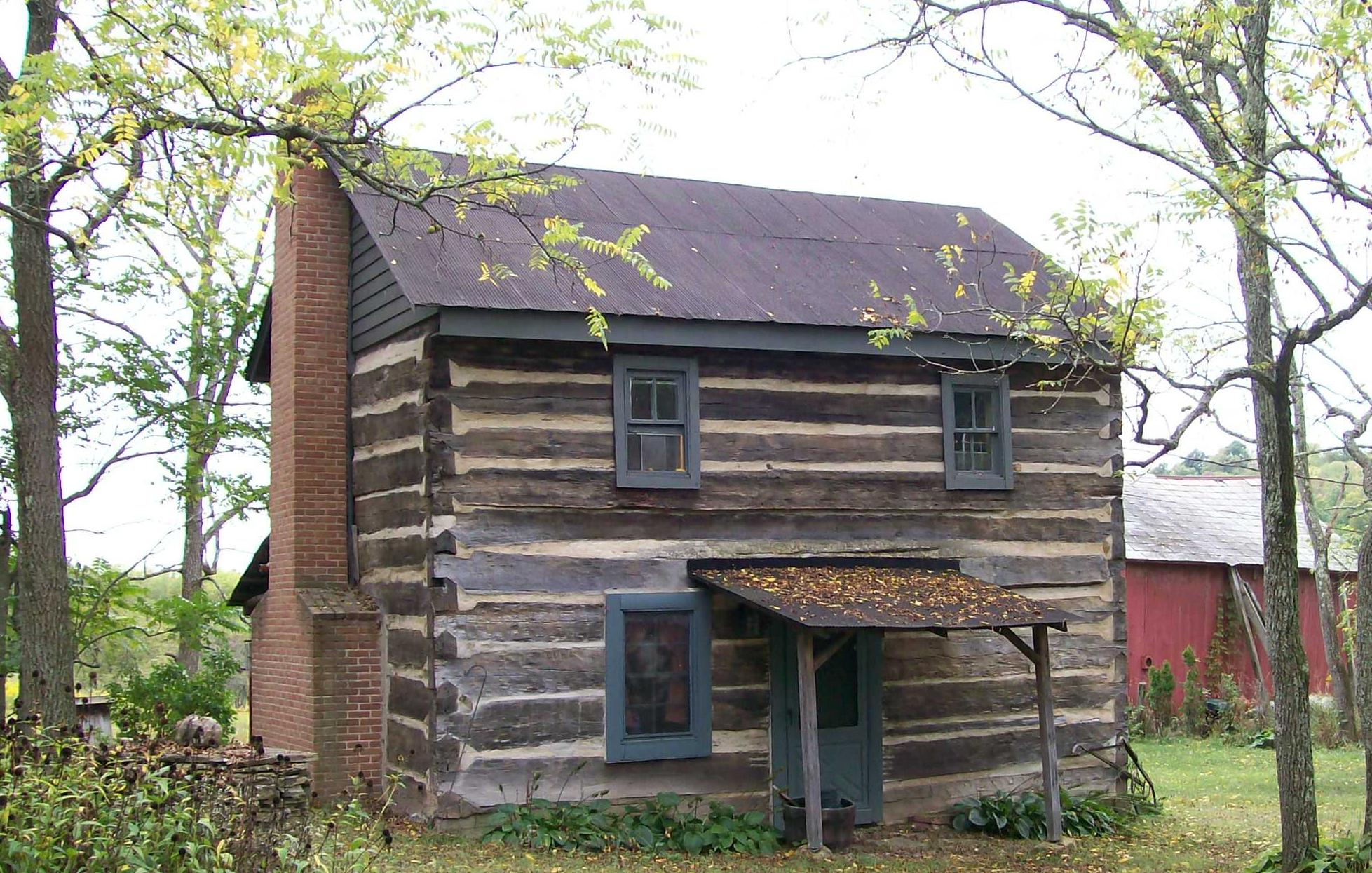 The Abner Williams Log House north of Seneca Lake in Ohio.